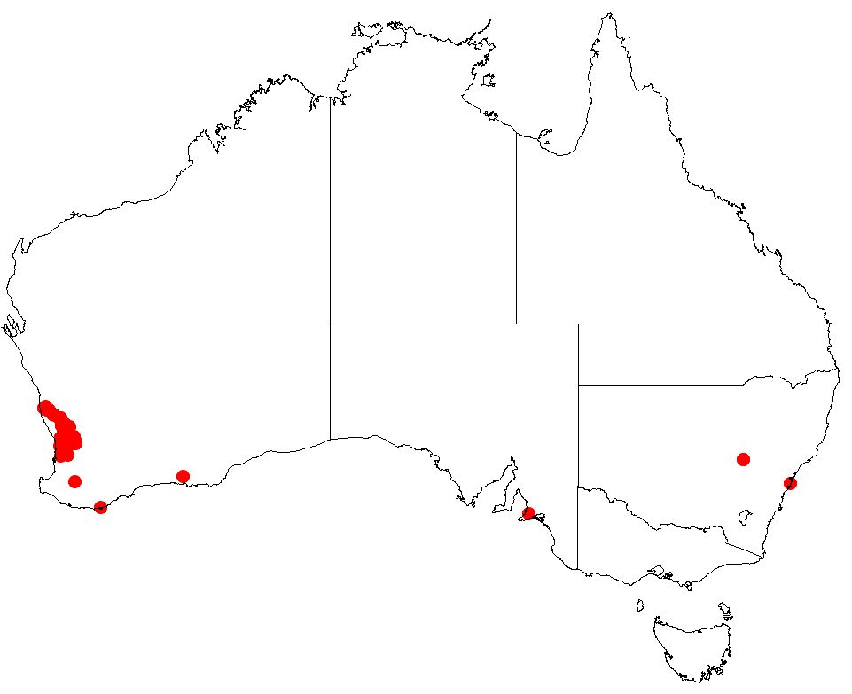 Hakea erinacea Occurrence data downloaded from Australasian Virtual Herbarium on 22 November 2018 using